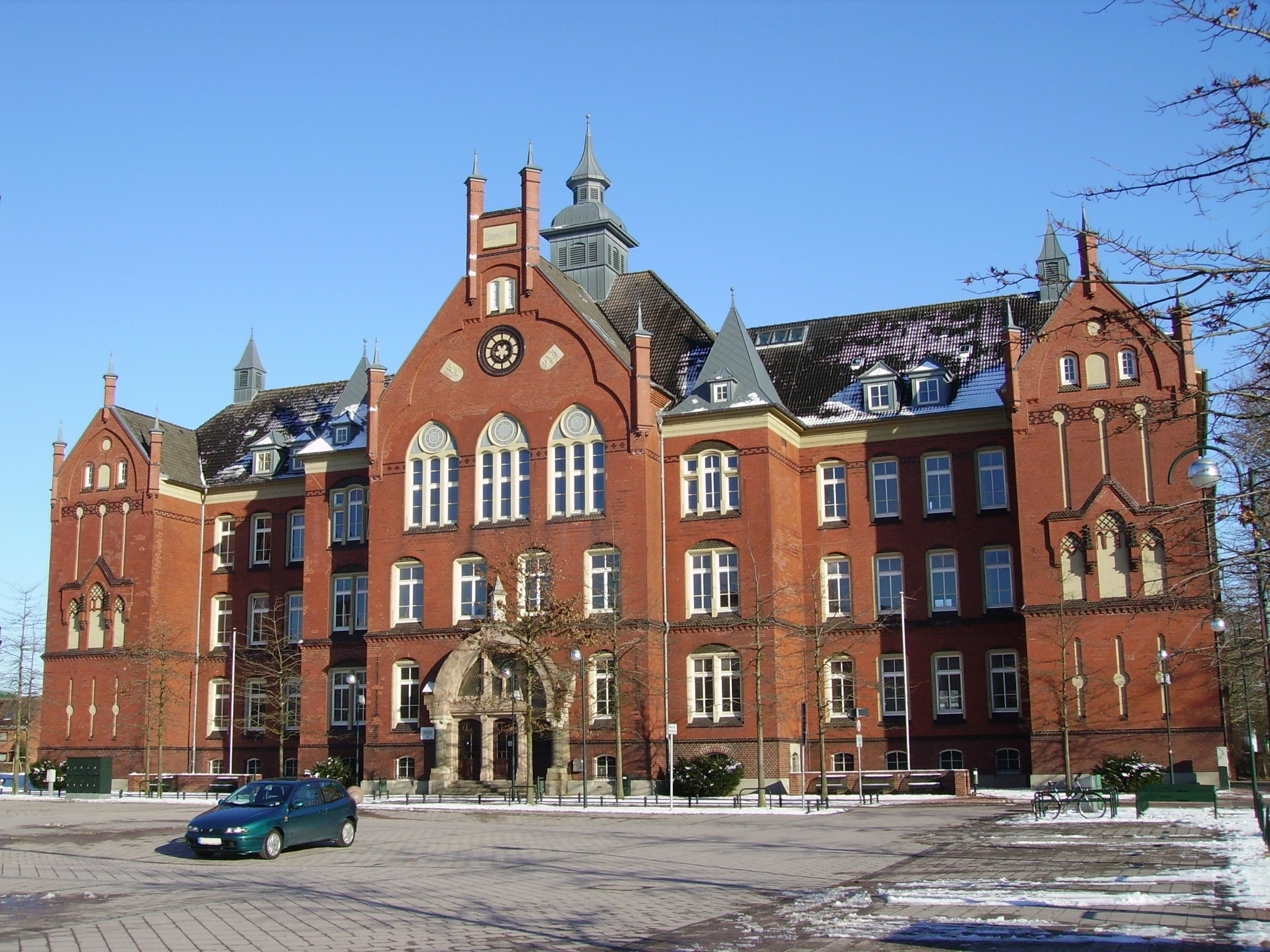 The Lessingschule (Lessing School) in Bremerhaven, Germany